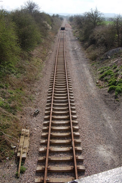 New line being laid for the Gloucestershire & Warwickshire railway near Stanton View looks south-west from the railway bridge on the unclassified road to Stanton.